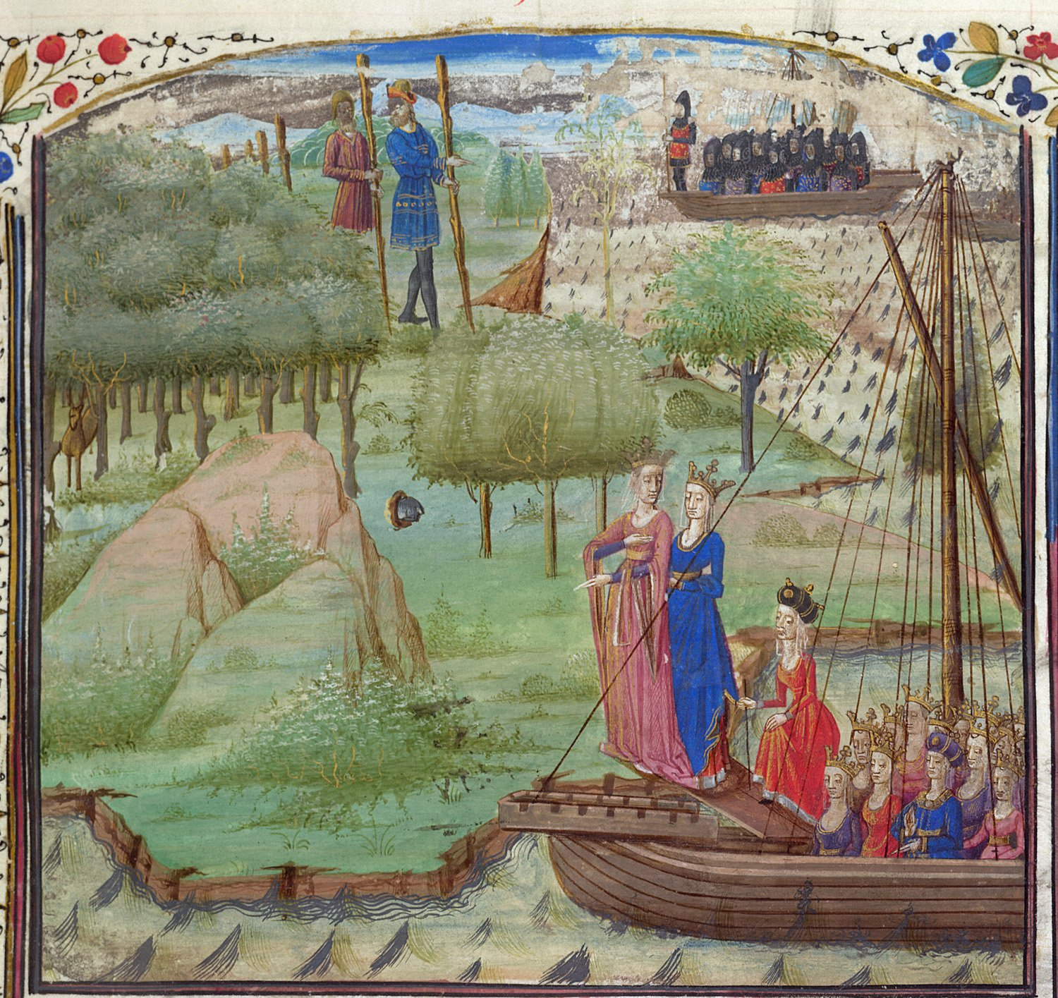 "Detail of a miniature of Albina and other daughters of Diodicias disembarking from a ship in Britain, with two giants and Brutus and his followers arriving in another ship" (Brit. Lib. Catalog of Illum. mss.), French Prose Brut, in BL Royal 19 C IX), f. 8. Held and digitised by the British Library.[1]